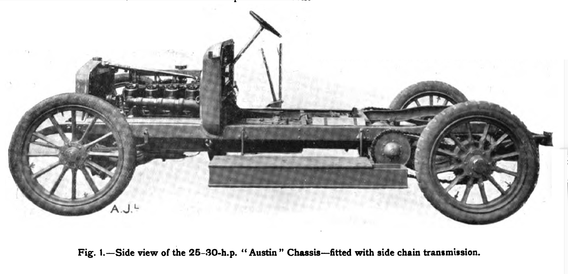 1906 Austin 25-30 chassis side view